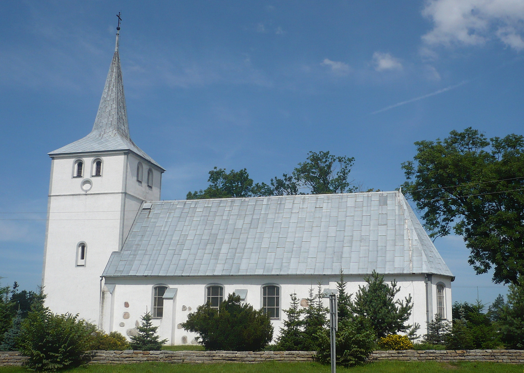 Christ the King Roman Catholic Church in Biesiekierz, Poland